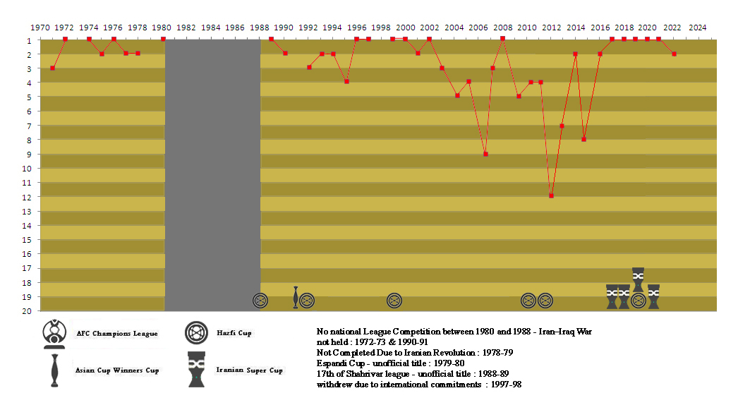 Persepolis Iranian League seasons Category:Persepolis F.C.